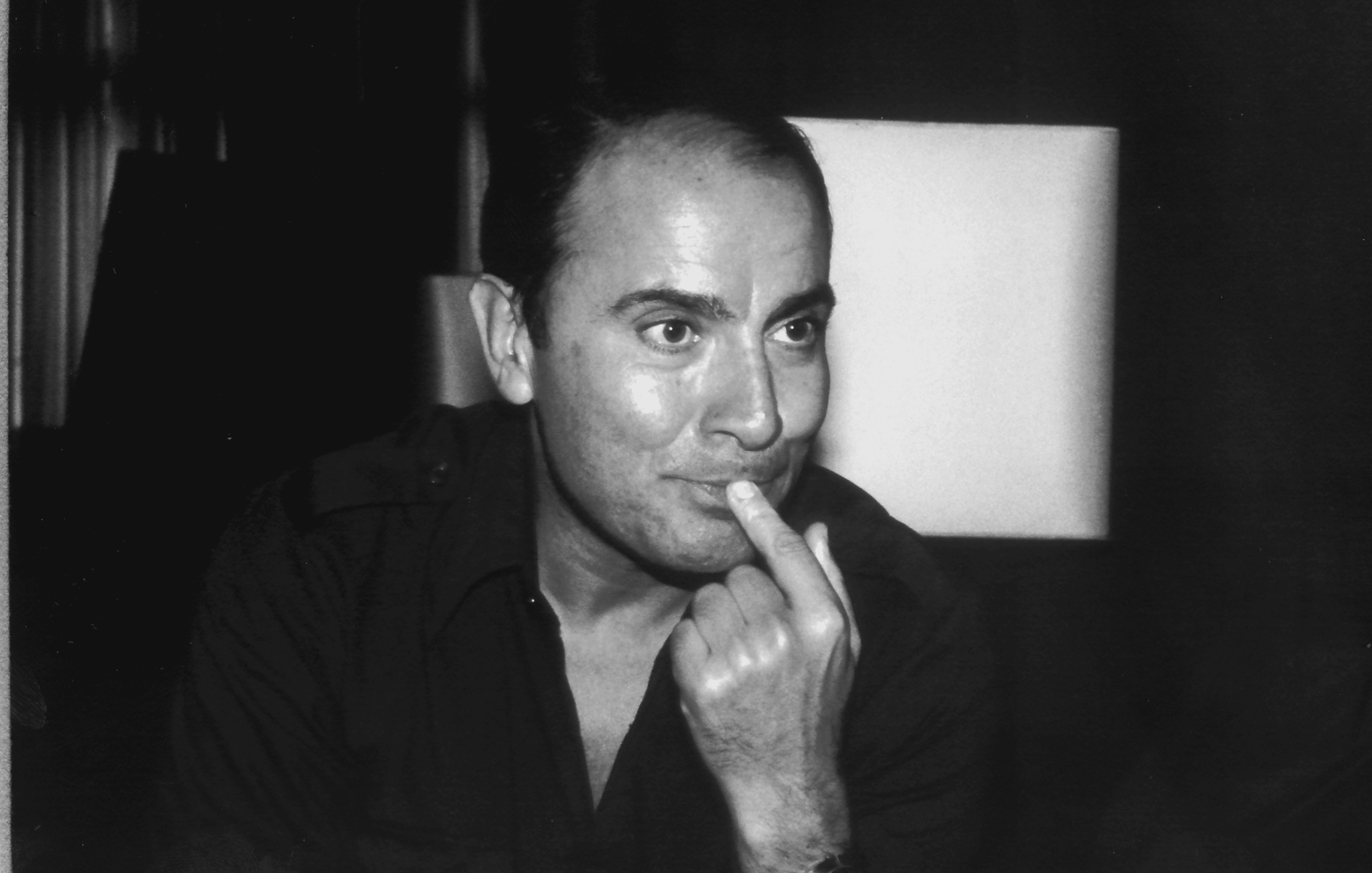 Escritor Argentino